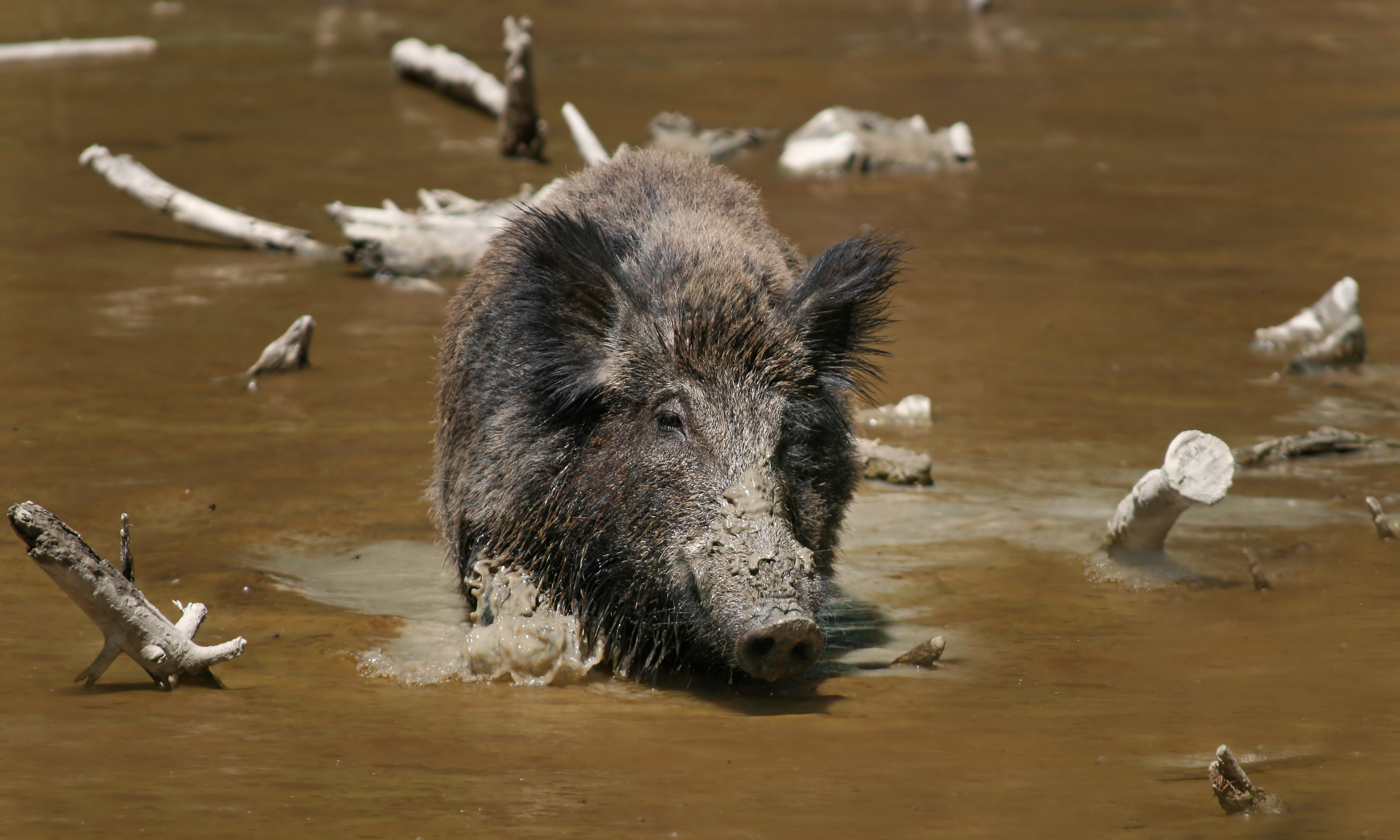 The Wild Boar (Sus scrofa) is the wild ancestor of the domestic pig. As shown in his natural habitat.